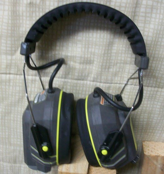 Hearing protectors. This pair not only blocks out loud noises from power saws or drills, but it has a microphone with a volume control and a rechargeable battery, so the wearer can hear "normal" sounds such as conversation while overall noise levels are moderate. This protects hearing. (Damage to ears can happen with either VERY loud sounds like a bomb blast or prolonged exposure to fairly loud sounds like power machinery). Source of picture: here (see public domain declaration at top). Questions: write me on my Wikipedia page or email me at